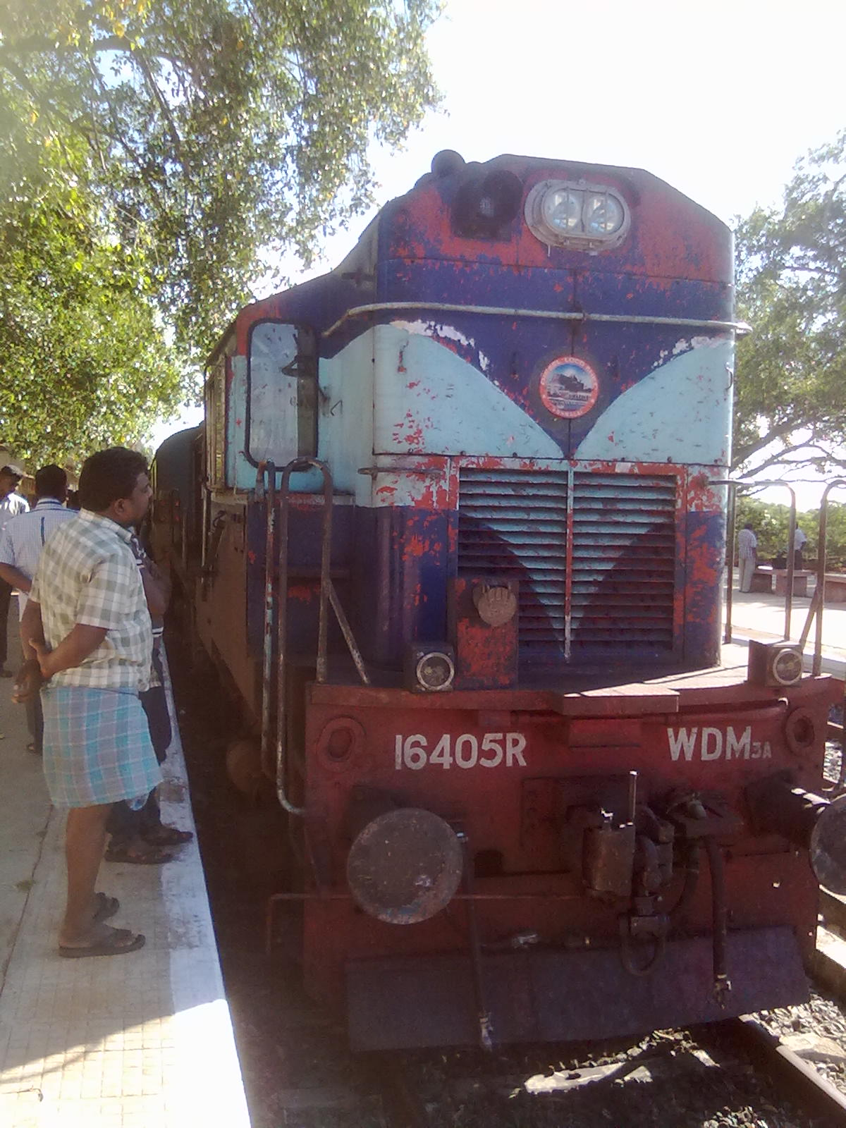 Boat mail express at Sivagangai